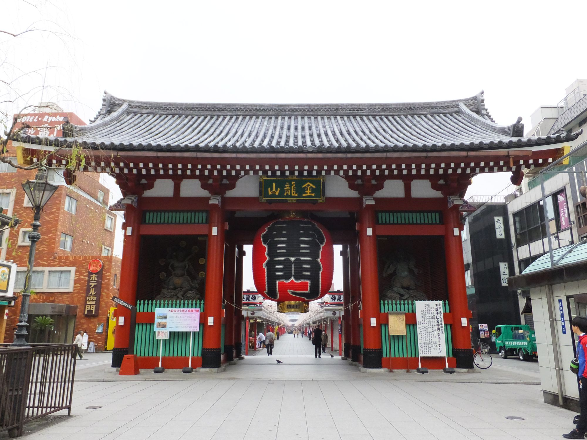 Kaminarimon gate of Sensō-ji temple in Asakusa, Tokyo